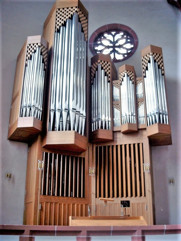 Tzschöckel-Orgel in St. Antonius Trier